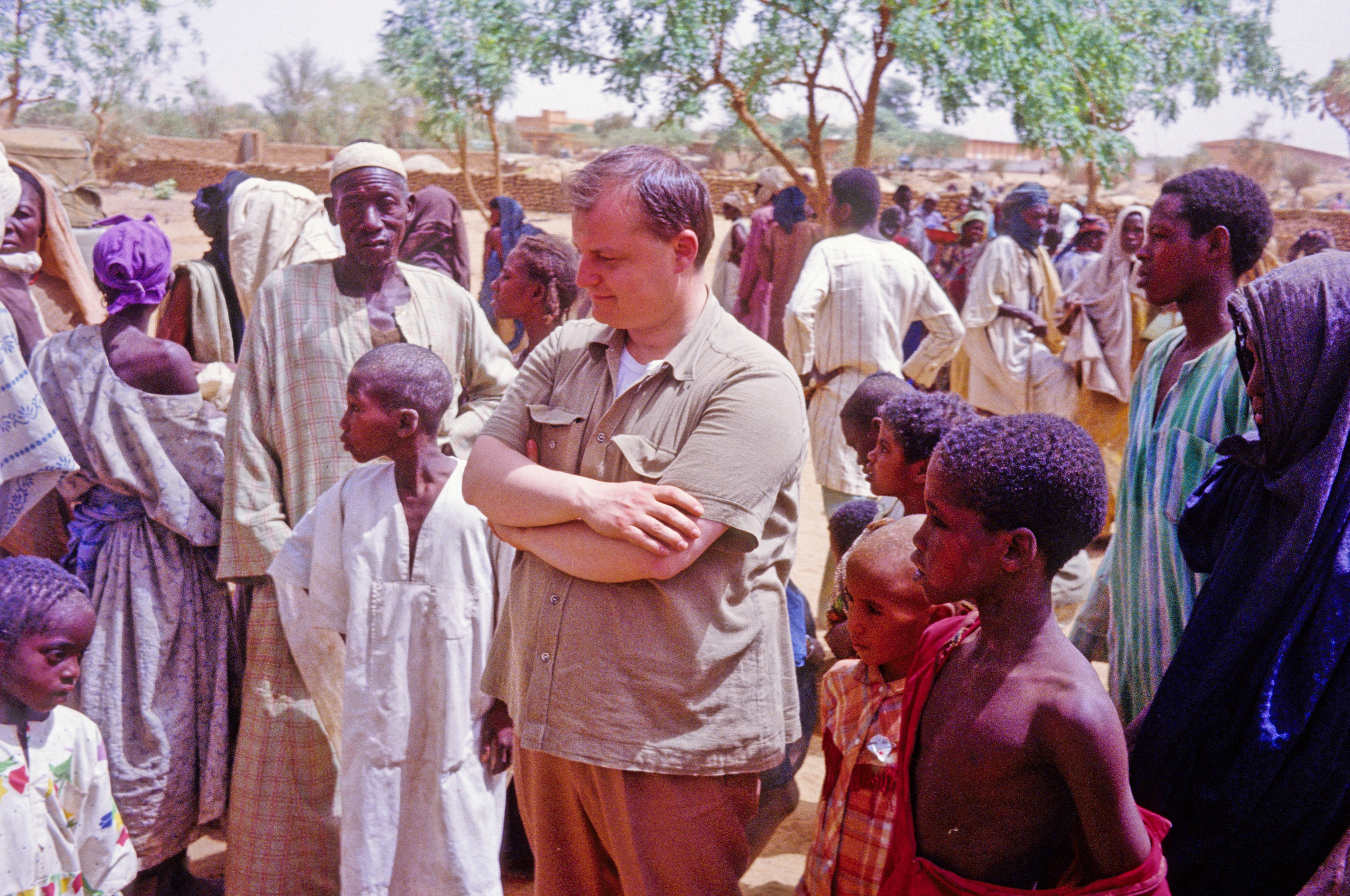 Massimo Barra in Niger, 1985, Sahel'85 Operations of League of Red Cross and Red Crescent Societies